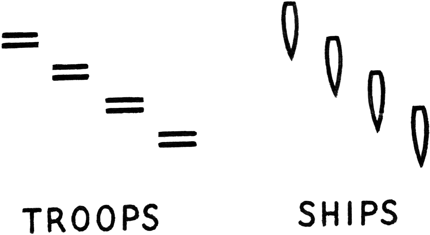 Line art drawing of an Echelon formation